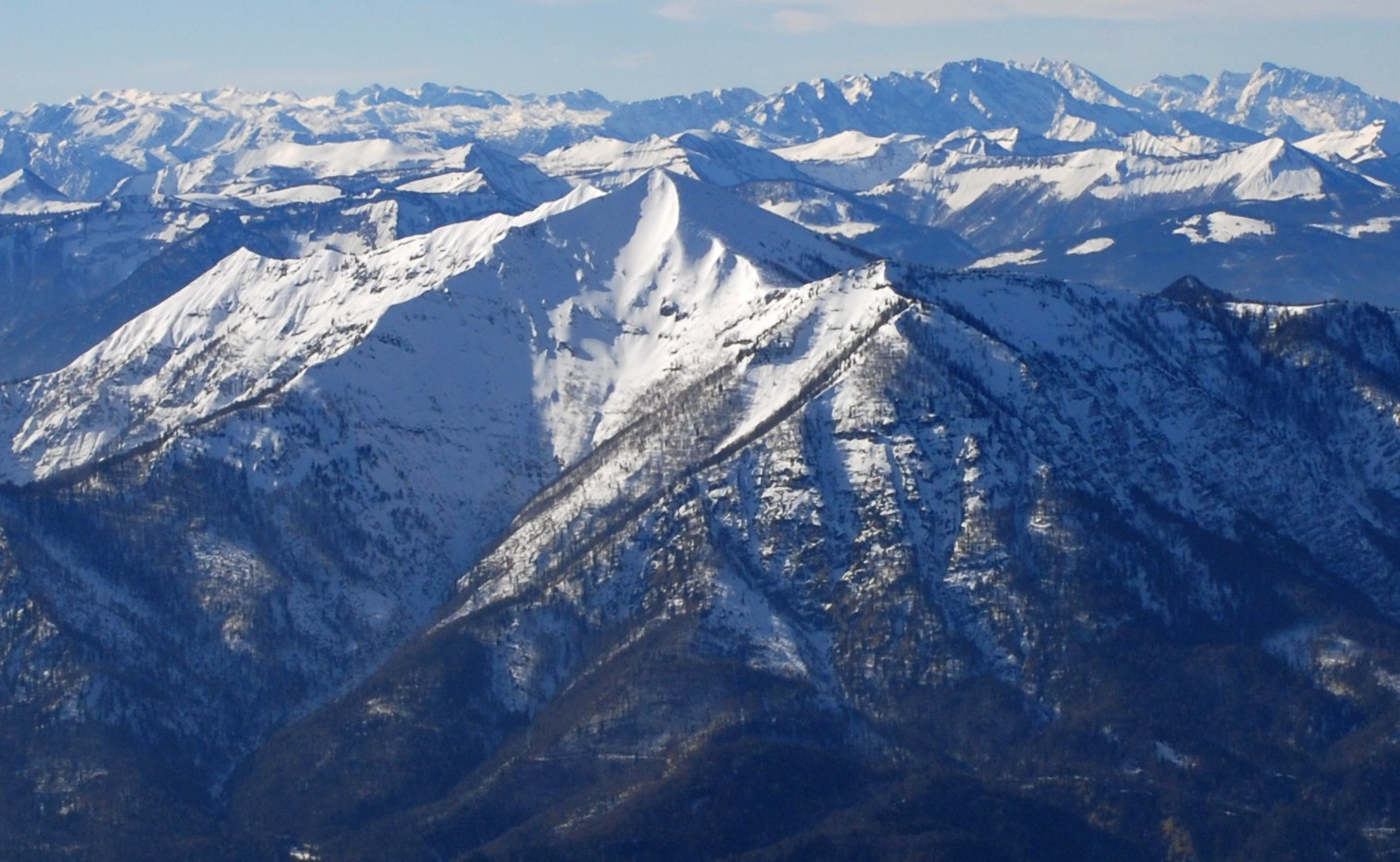 Zimnitz as seen from Großer Höllkogel, Upper Austria, Austria